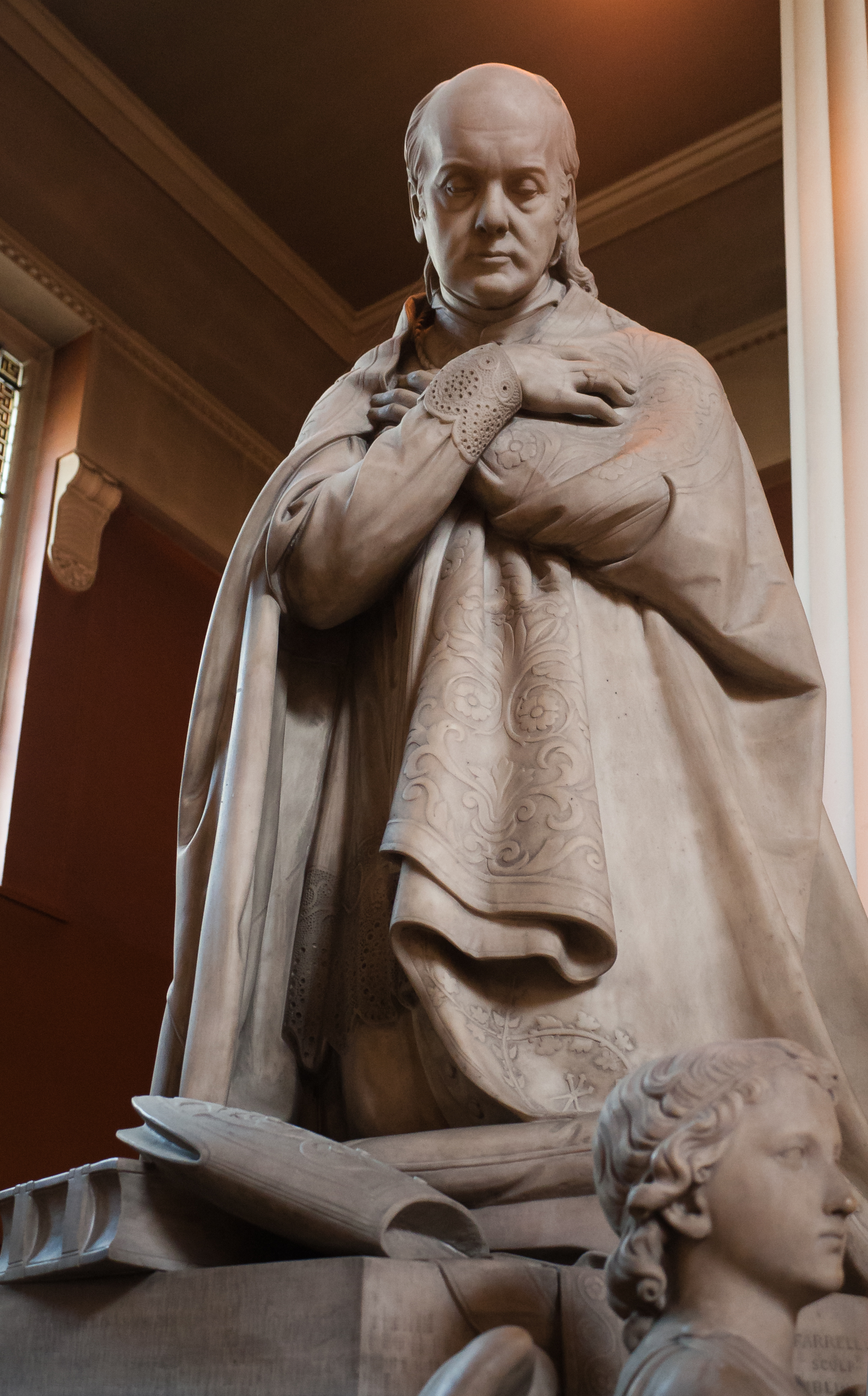 Monument in the north aisle dedicated to Archbishop Daniel Murray, sculpted by Sir Thomas Farrell in 1855.